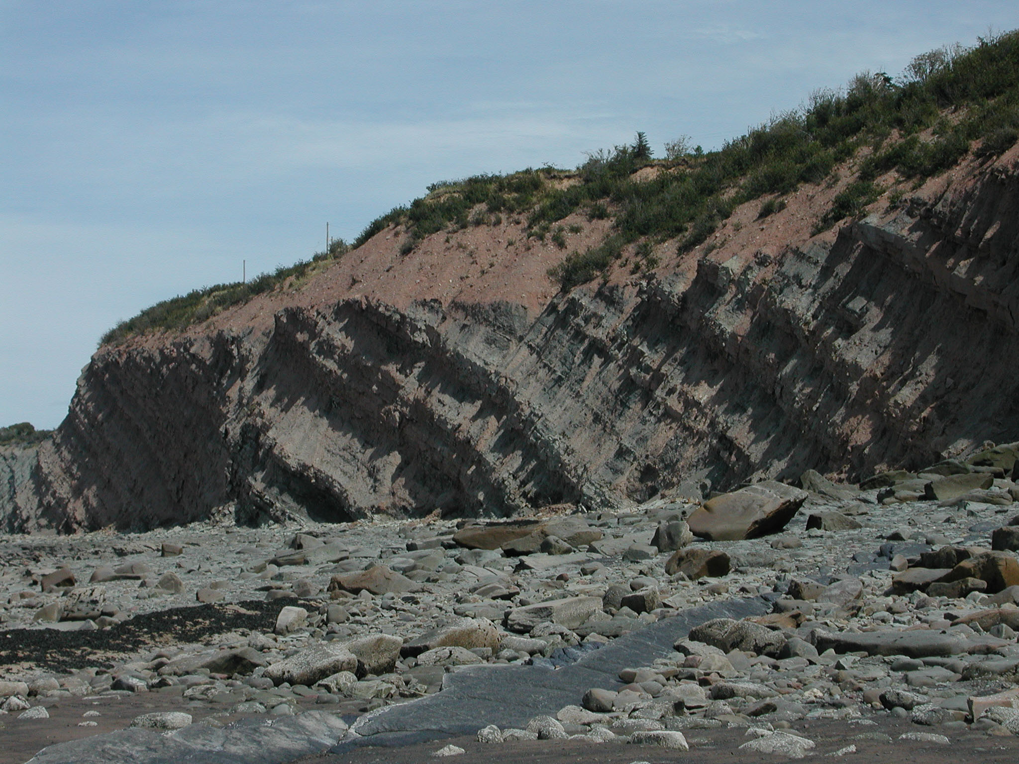 Showing exposed stratification reveals fossils from an early Carboniferous Period rainforest.